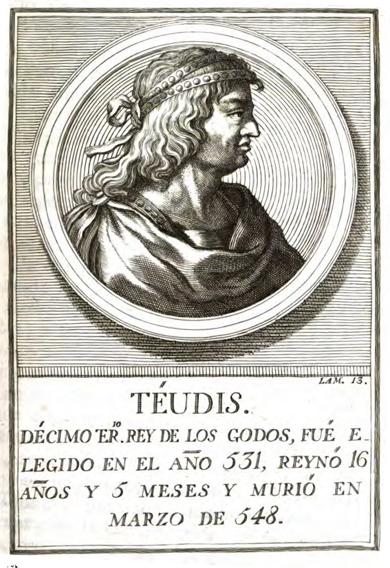 A poster of TEUDIS, Visigoth king, n° 13 in the chronological order of the book digitalized by Google since the bookshop in the University of Oxford.